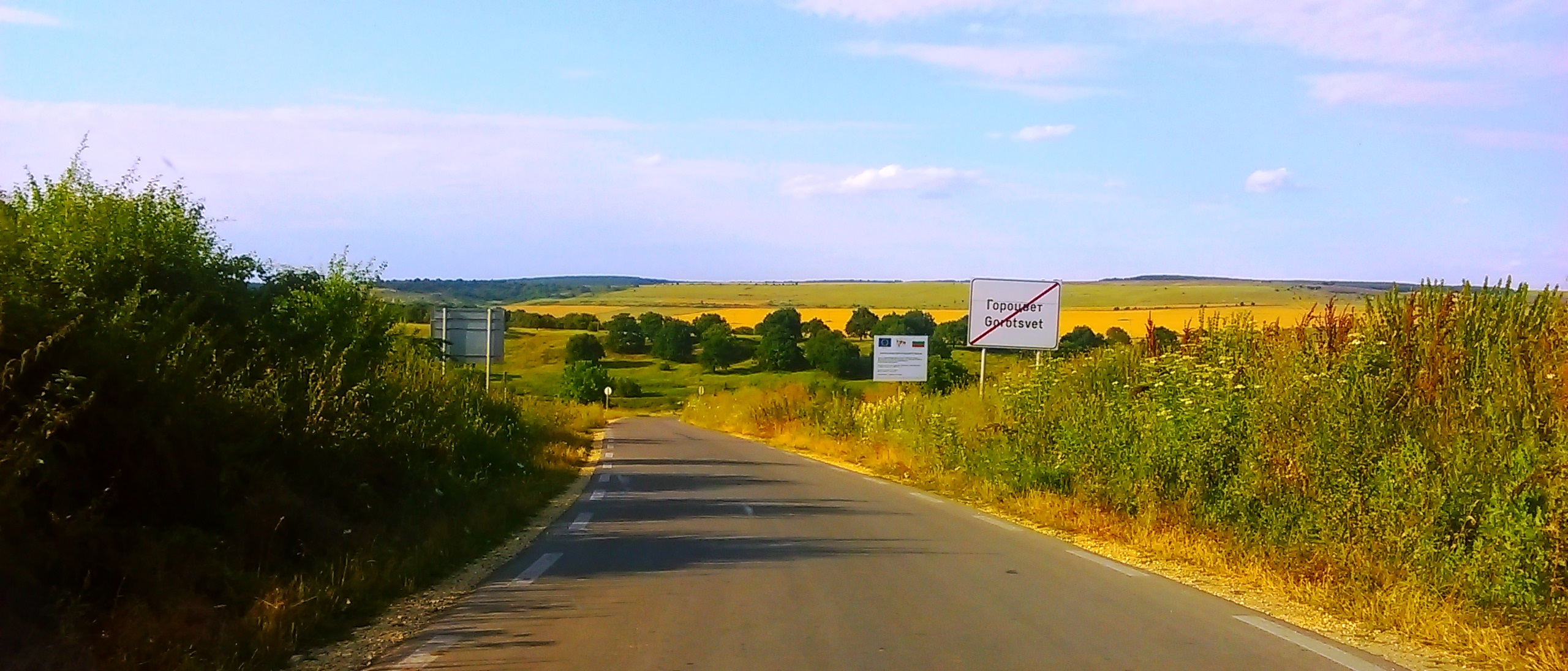 Landscape around Gorotzvet, Razgrad Province, Bulgaria